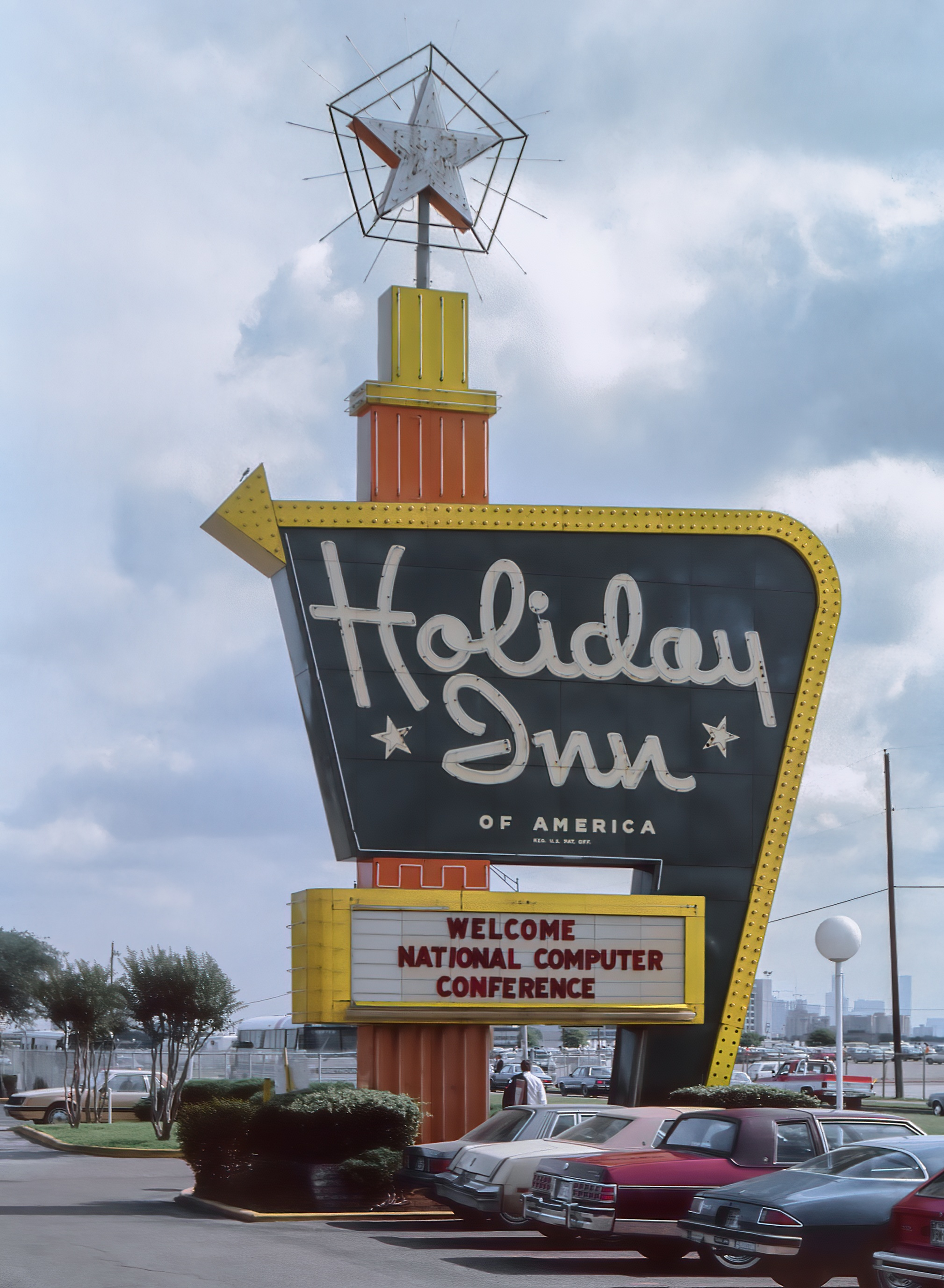 Holiday Inn, W Kirby Drive, Houston, Texas welcomes delegates to the the 7-12 June 1982 National Computer Conference.